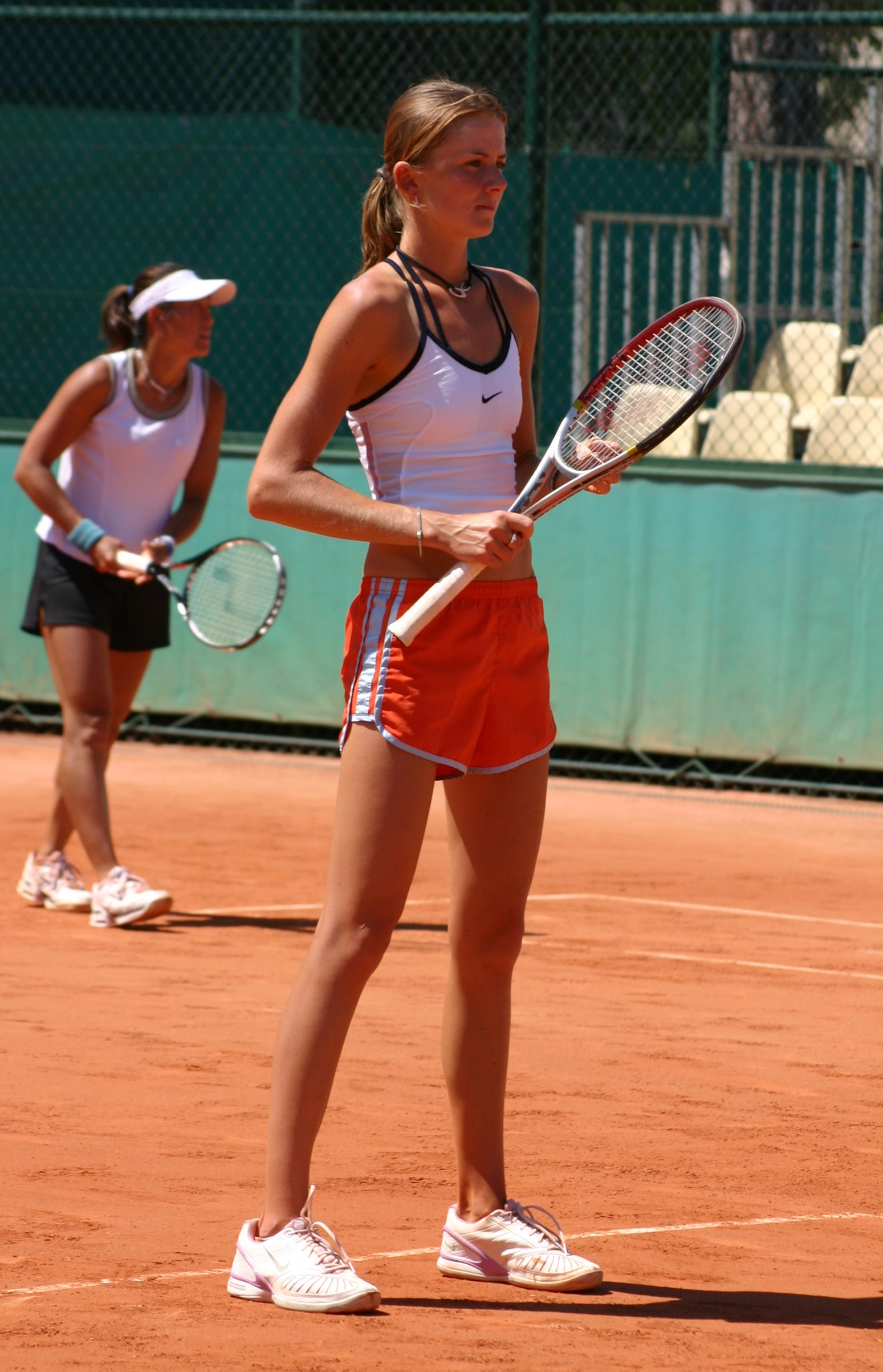 Daniela Hantuchová with Ai Sugiyama at Roland Garros 2006